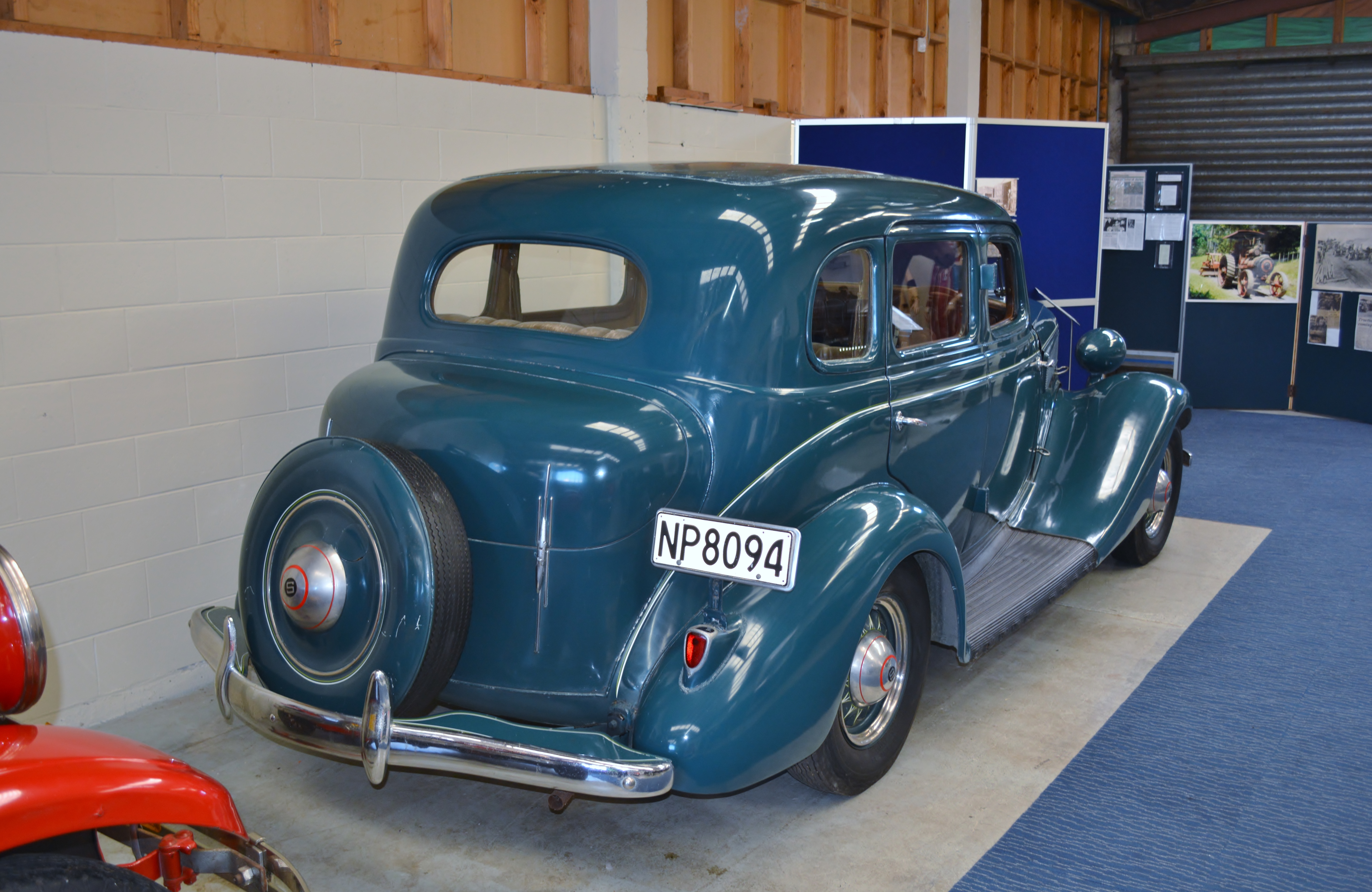 Whangarei,Northland.New Zealand